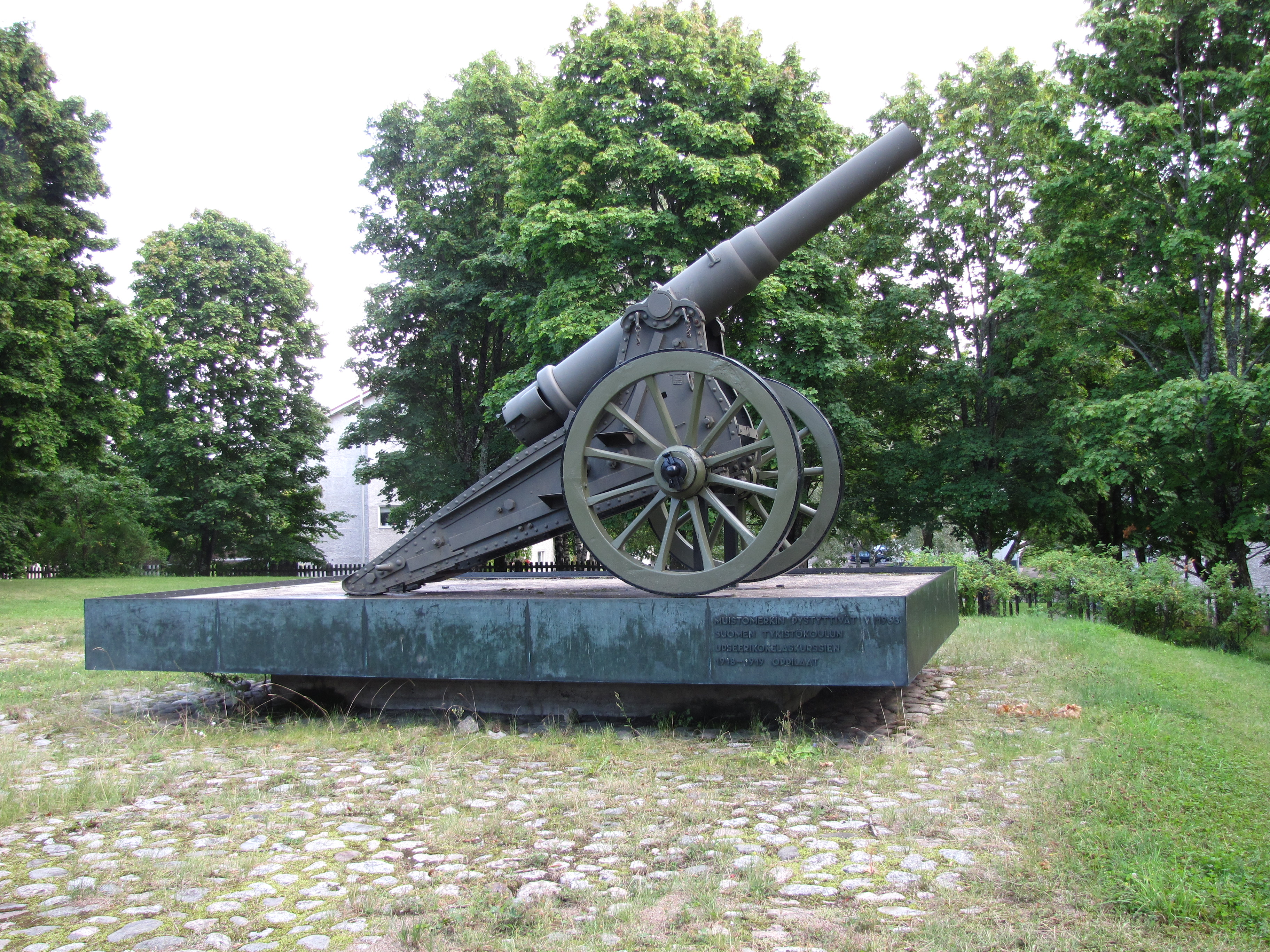 Russian 6-inch siege gun M1877 120 pood barrel version in Lappeenranta. This gun is a memorial of the Finnish artillery school officer course 1918-1919.